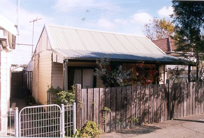 Timber Slab Cottage, Tempe: Exterior of 44 Barden Street, Tempe; original cottage cacooned with modern aluminium weatherboards.